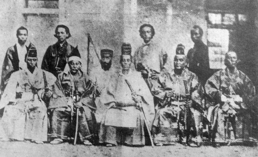 The center, a Japanese man 清水谷公考 (Kinnaru Shimizudani)